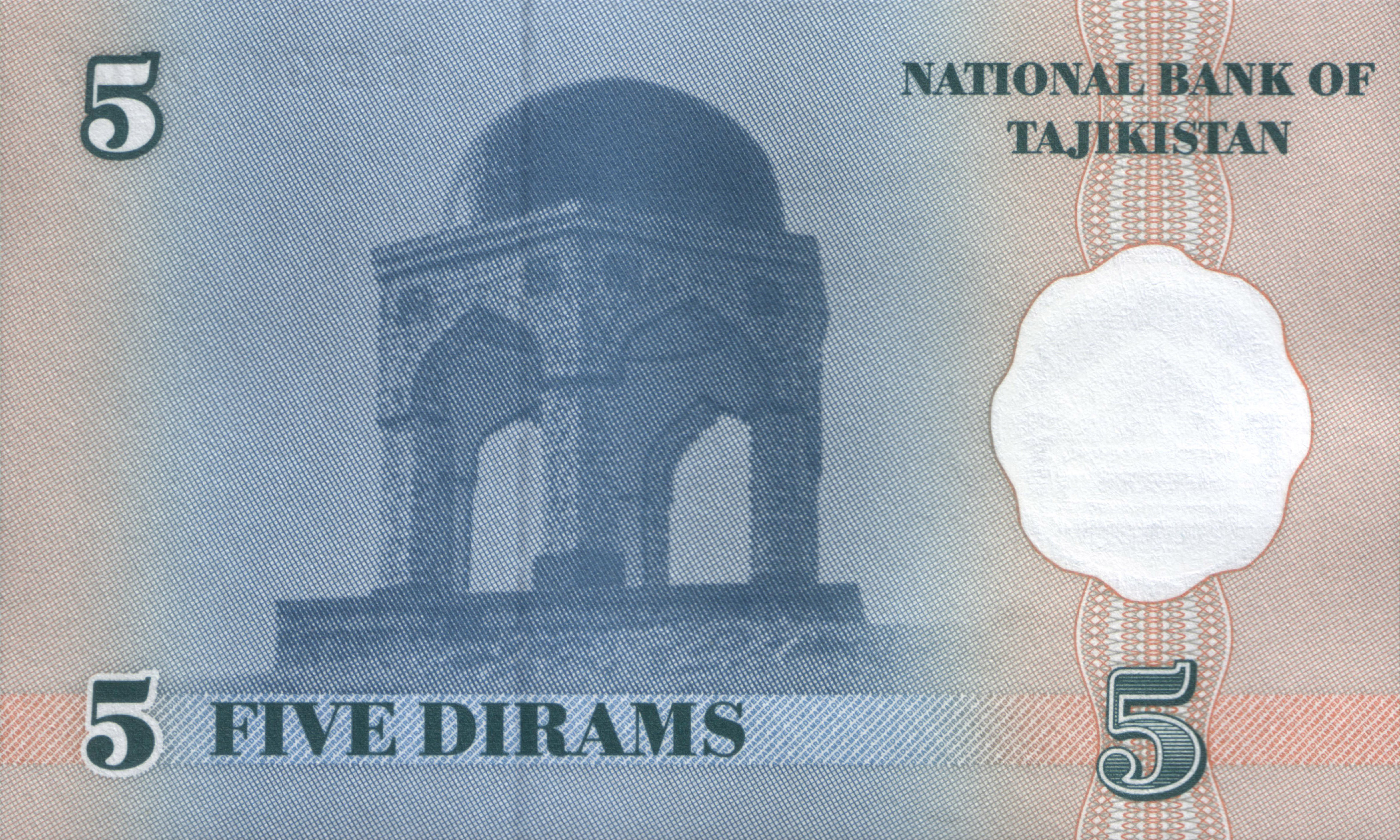 5 dirams of Tajikistan (1999)